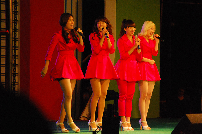 씨스타(SISTAR) at the Daejon University Festival.